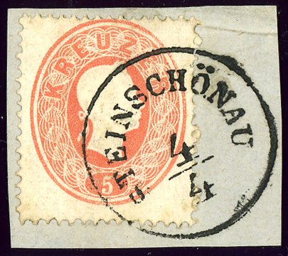 Austrian KK 5 kreuzer issue 1861stamp, cancelled at STEINSCHÖNAU, Kamenický Šenov, Bohemia